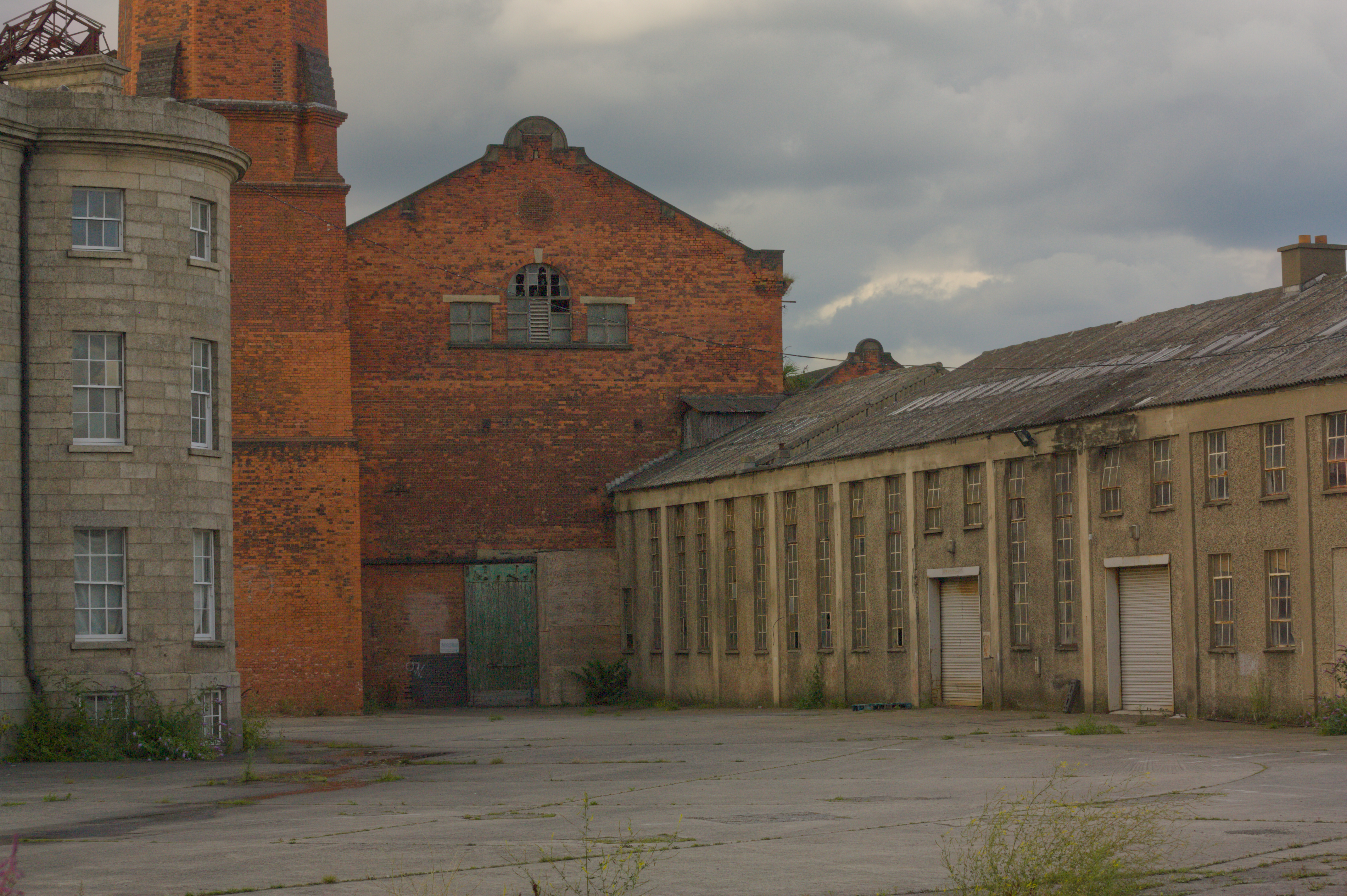 Pi(d)geon House Hotel, Dublin and part of the old electricity generation station